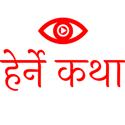 Updated Logo of Herne Katha, a web series from Nepal